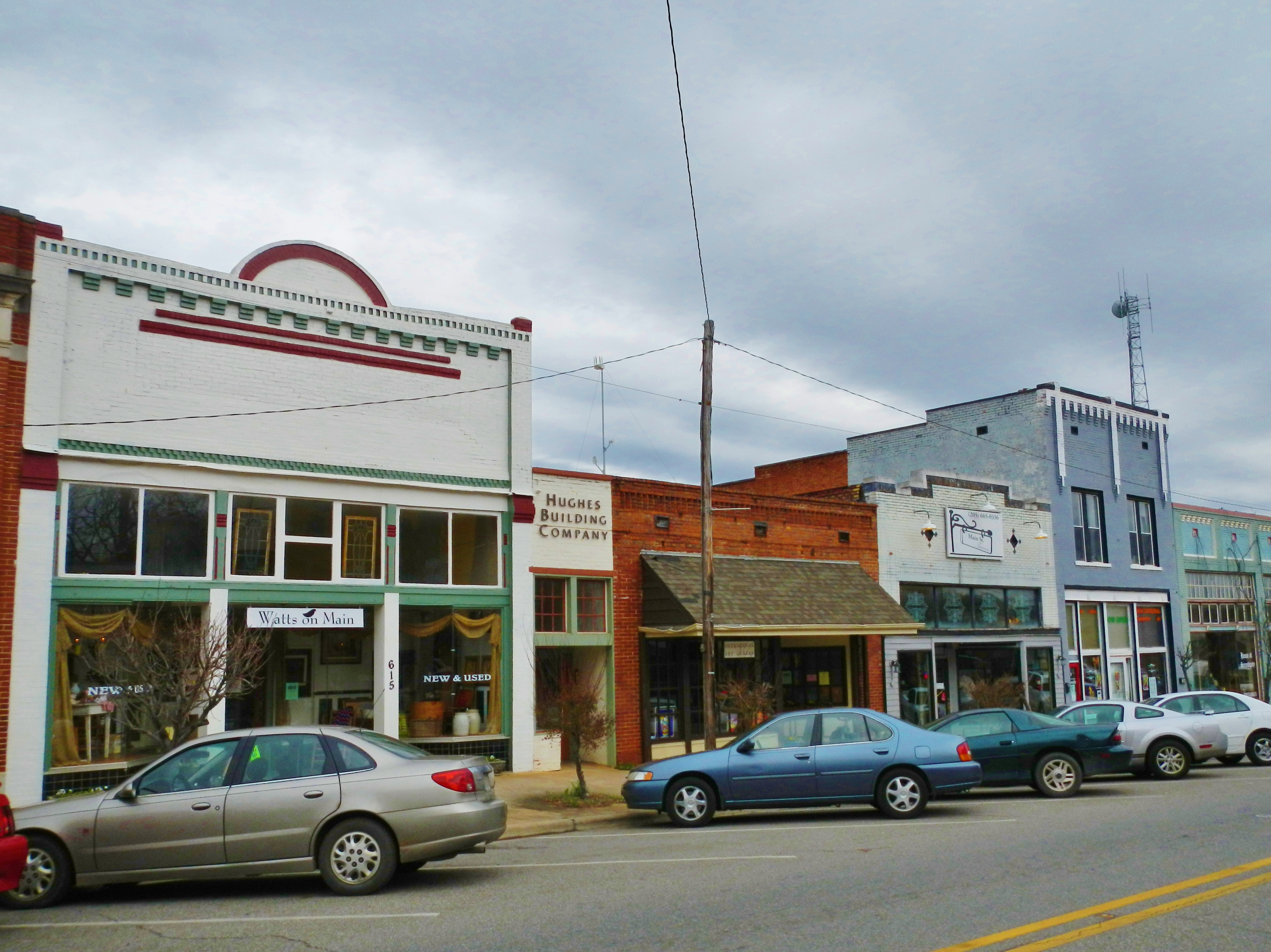 This is a photo of Montevallo, Alabama.